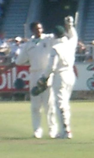 Makhaya Ntini (left) celebrating his five-wicket-haul at the WACA in the first cricket Test match between Australia and South Africa. Cropped from the PD Image:Ntini Celebration.jpg